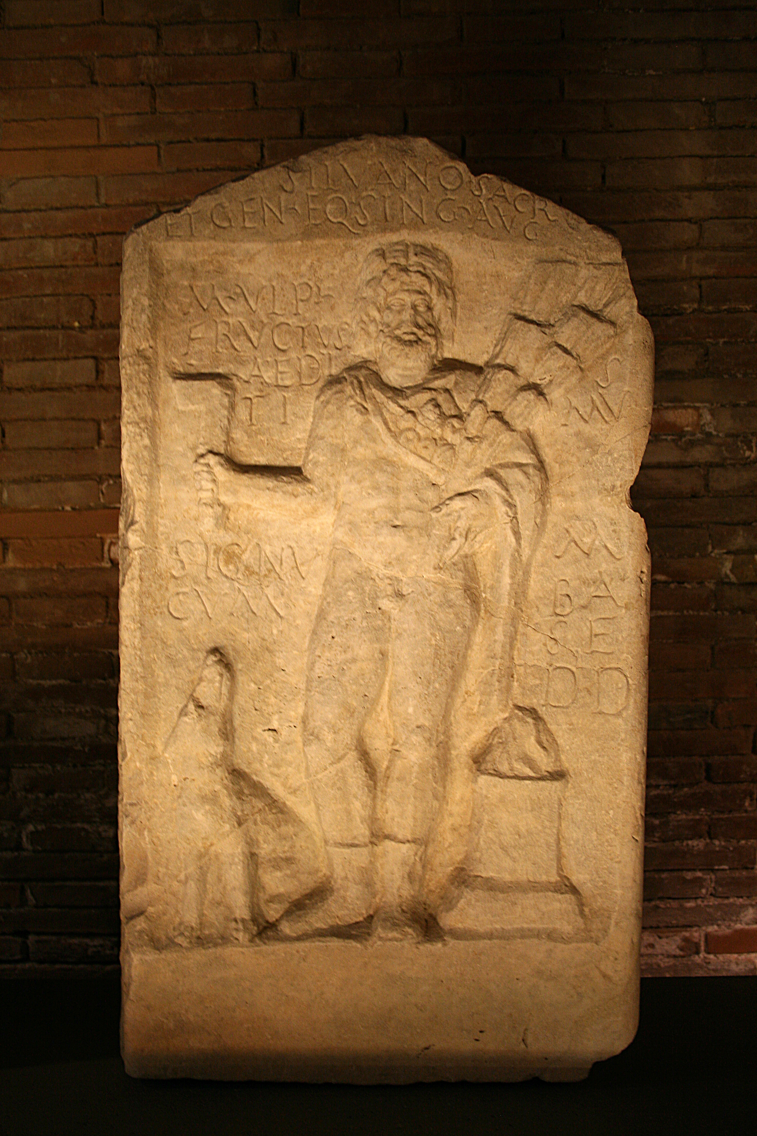 Altar decorated with a bas-relief depicting the god Sylvanus. - Marble, Roman artwork.